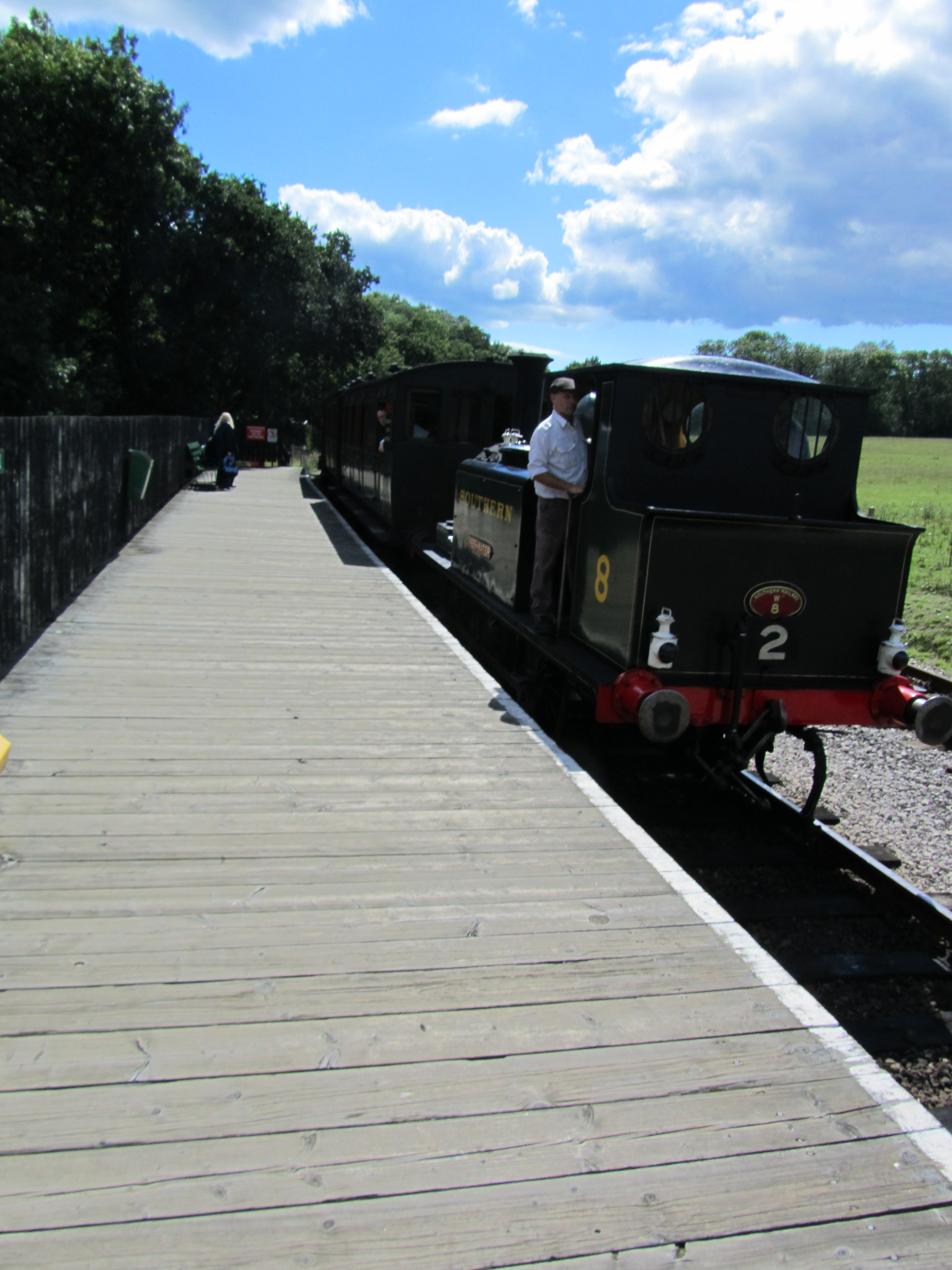 Isle of Wight Steam Railway's A1X (Terrier) Class 0-6-0T No W8 'Freshwater' at Smallbrook Junction station